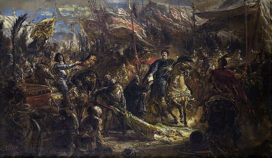 King John III Sobieski Sobieski sending Message of Victory to the Pope, after the Battle of Vienna